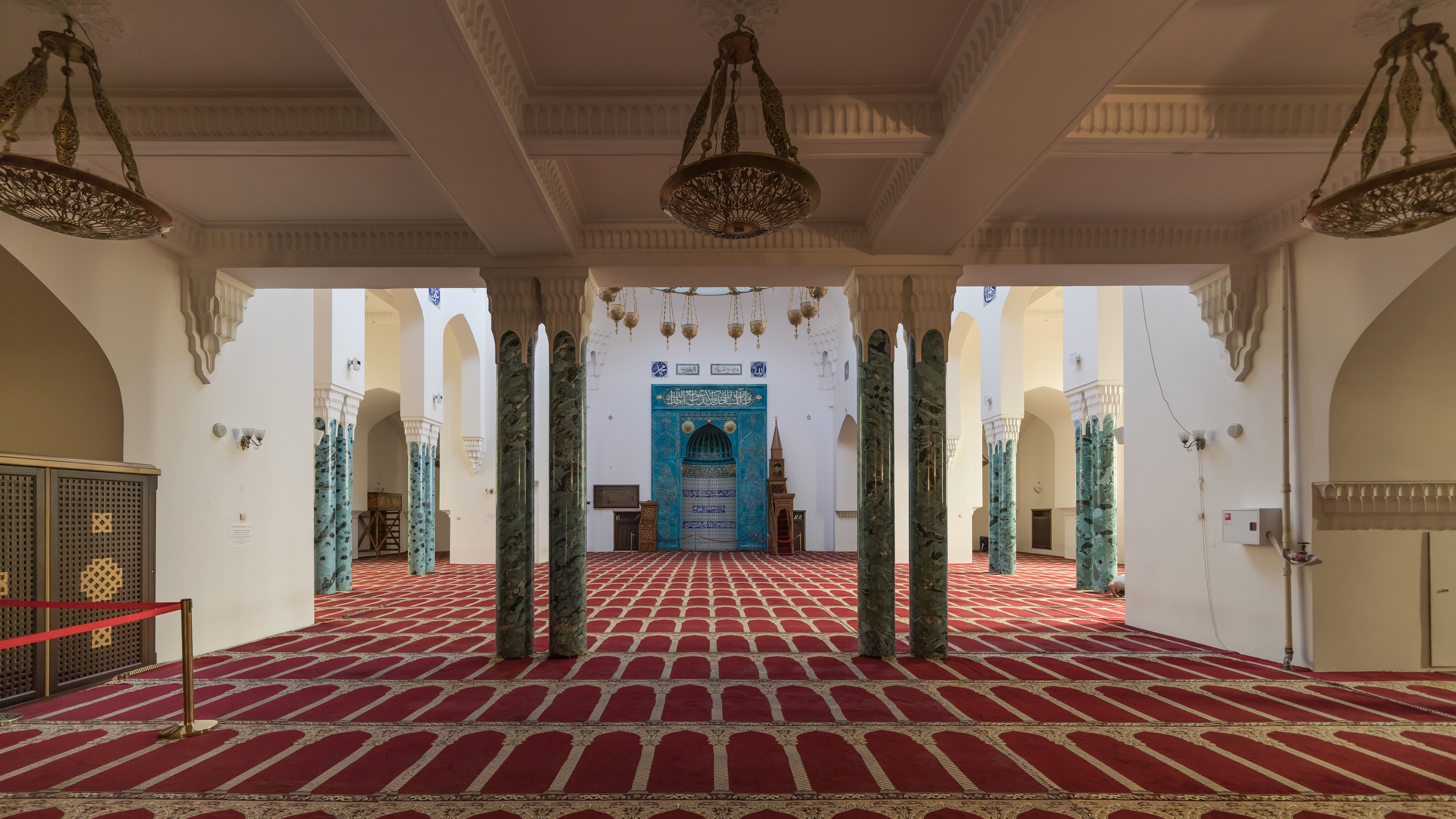 Interior of the Cathedral Mosque in Saint Petersburg, Russia